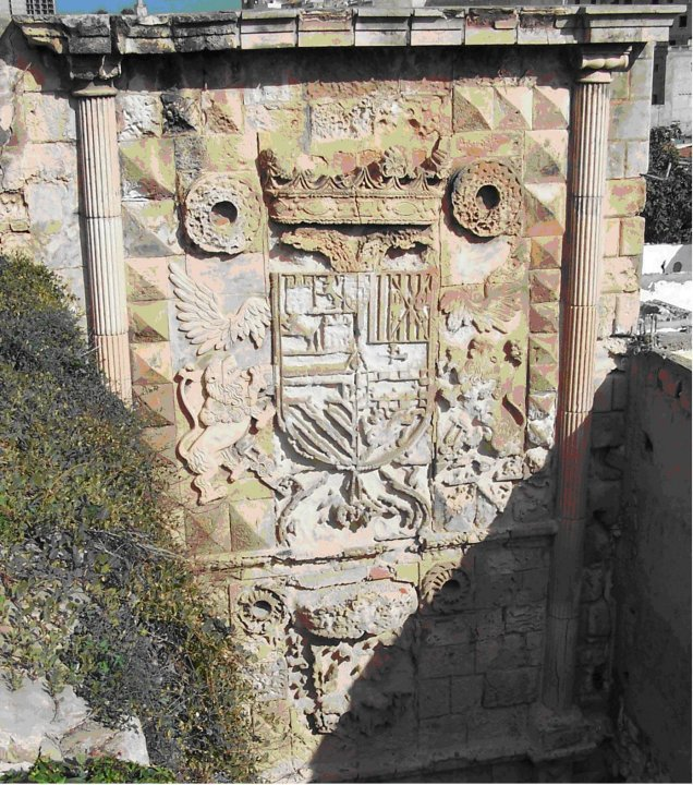 The gate of Spain (Oran, Algeria)